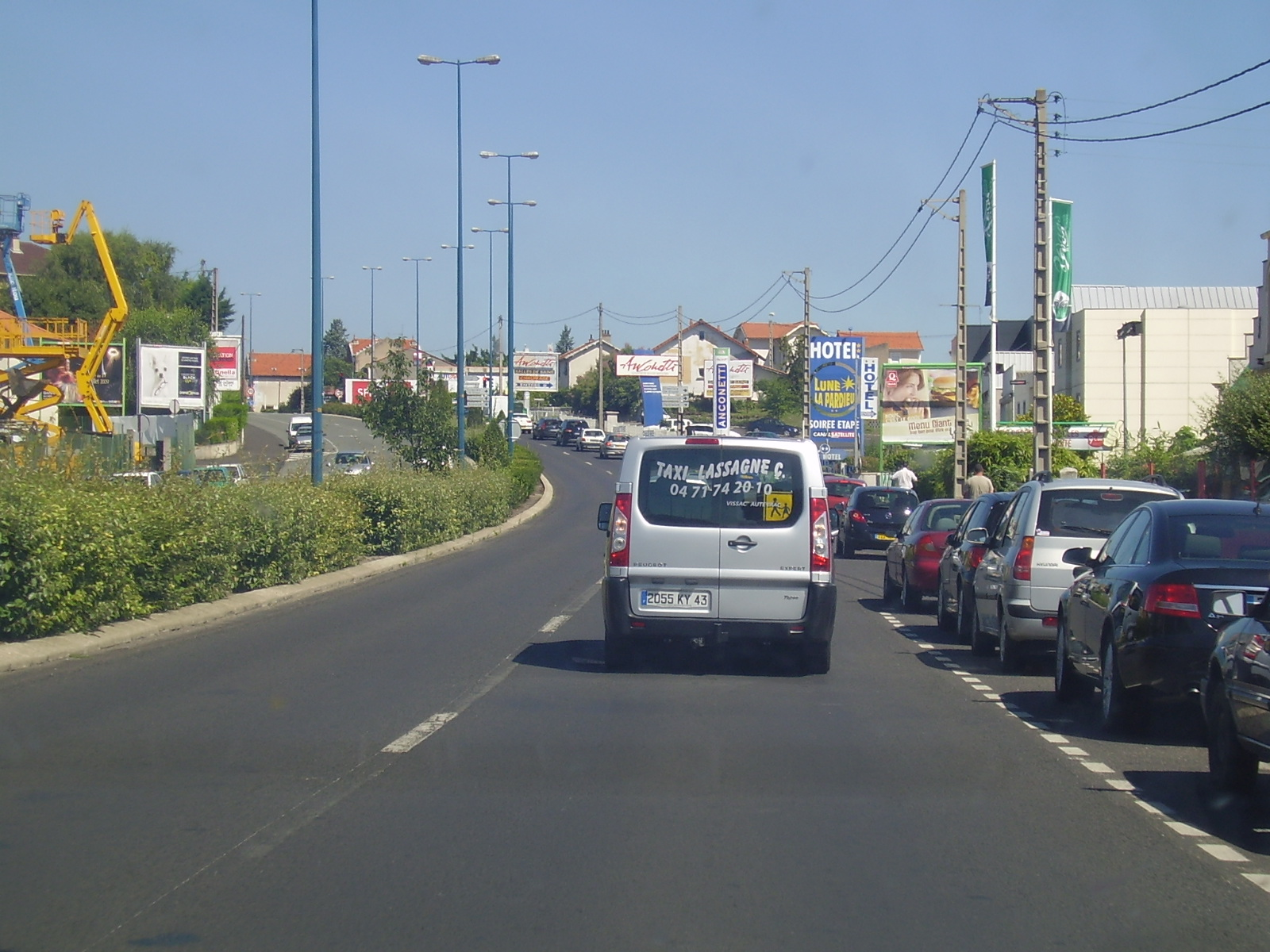 D 2009 (Puy-de-Dôme, Auvergne, France) in Clermont-Ferrand, Boulevard Gustave Flaubert.